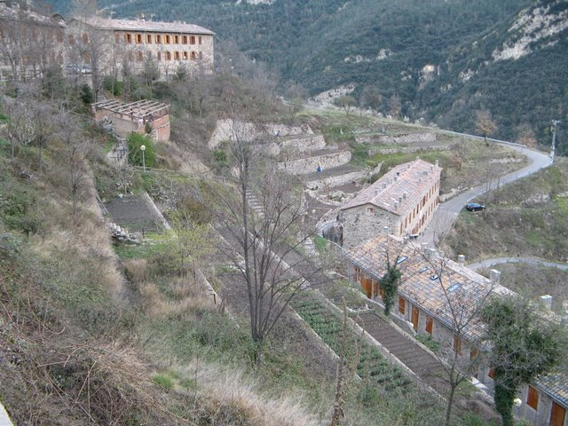 A pic taken in Sant Josep de Cercs, in Barcelona province